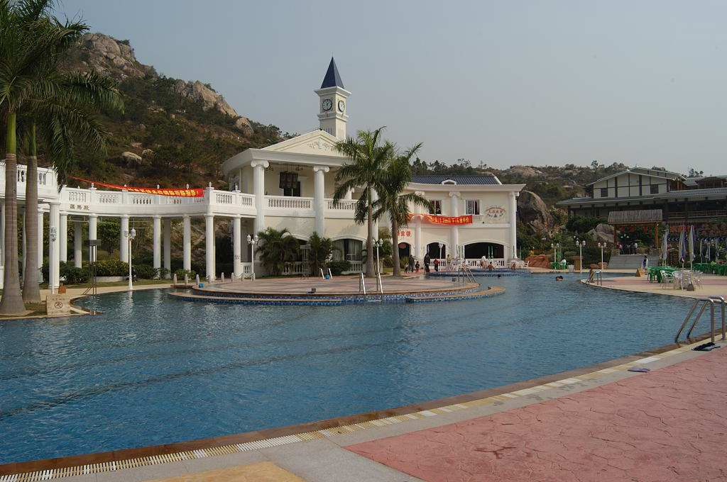 China Guang Dong, Xin Hui, Gu Dou Hot Spring, Hot water swimming pool.